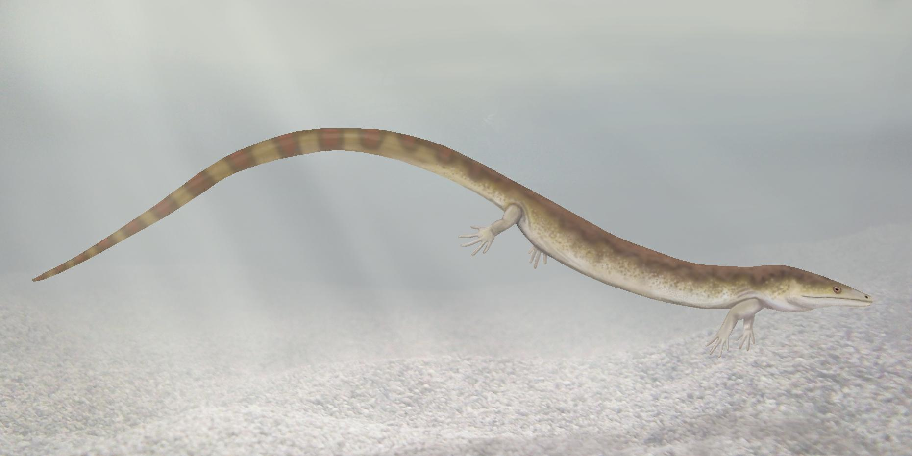 Life restoration of Sauropleura pectinata. Based on figure 4.13 (p. 94) of Vertebrate Palaeontology by Michael J. Benton. Wiley-Blackwell, 2005.